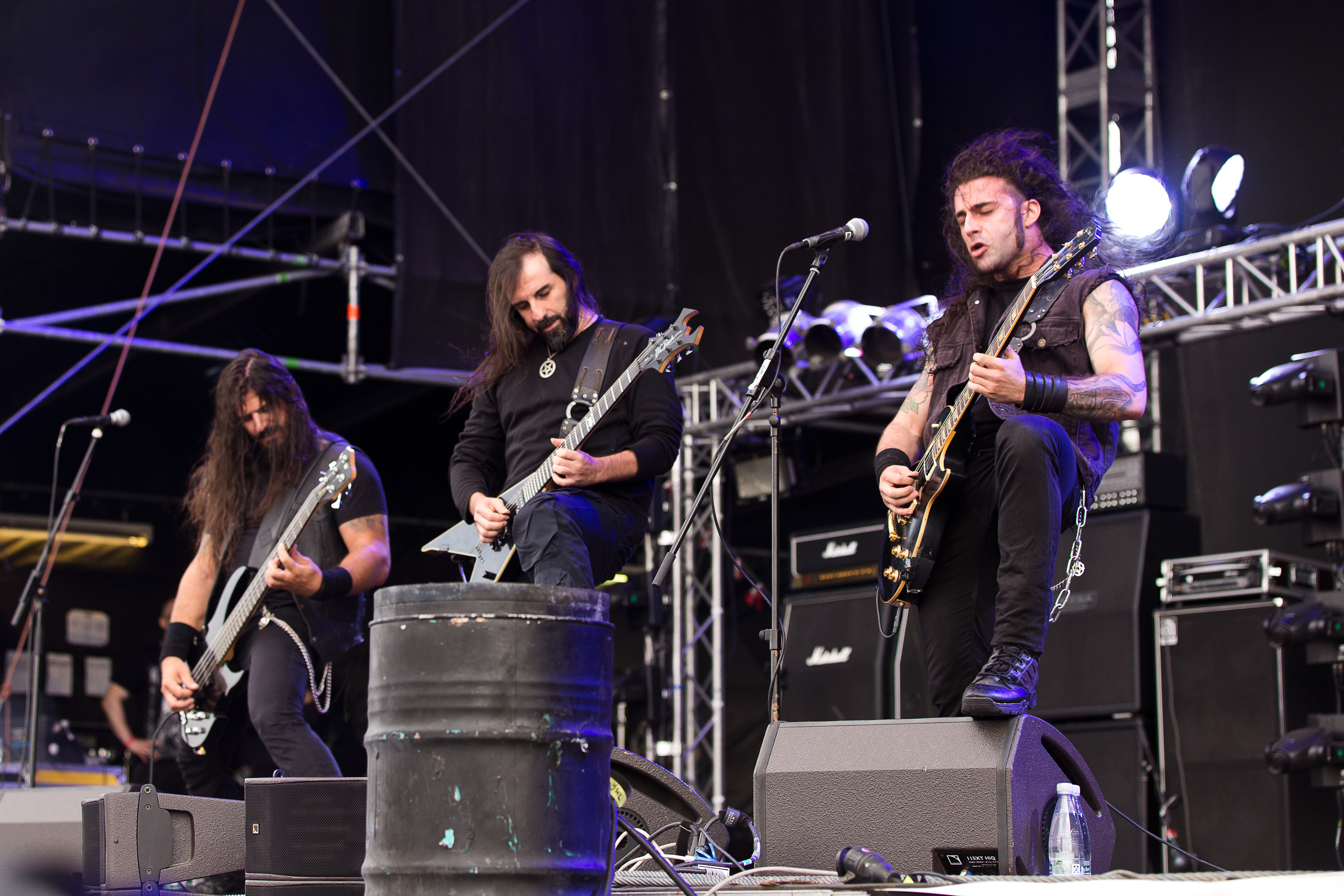 The Greek metal band Rotting Christ at the Party.San Open Air 2015 in Obermehler-Schlotheim/Germany.